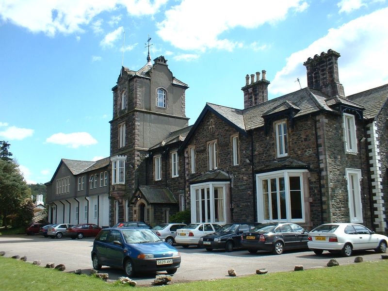 Image of Castlerigg Manor. A Catholic Residential Youth Retreat Centre in Keswick in the north of the English Lake District.